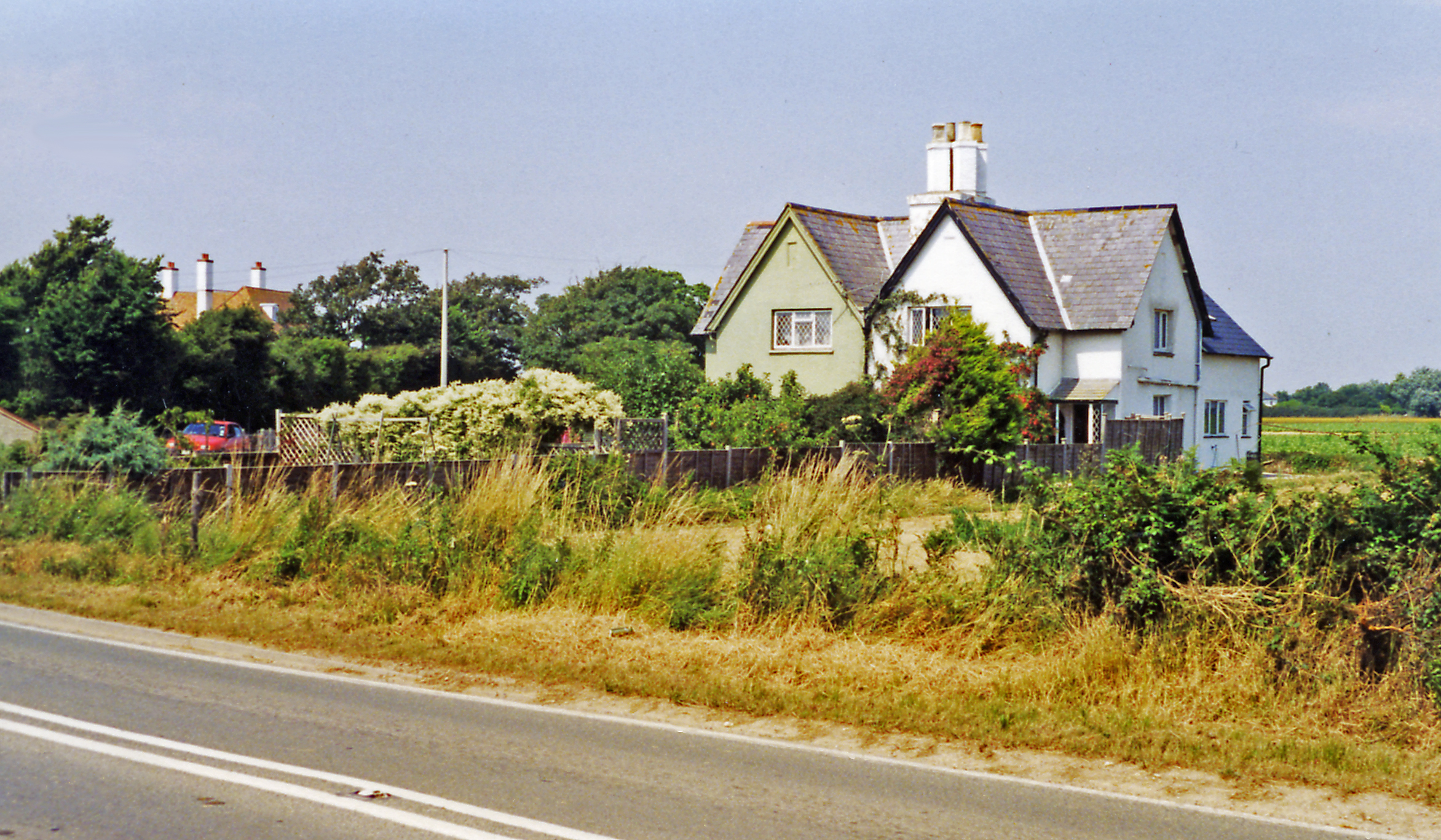 Site of Ferry station, Hundred of Manhood & Selsey Tramway, 1995. View NE, towards Chichester at Ferry House at the point where, until closed from 19/1/35, the Tramway had a 'station' after coming across the end of Pagham Harbour from Sidlesham and cut across the B2145 road